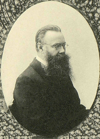 Grigoriy Gutop, politician, a member of the First, Third and Fours Russian State Dumas